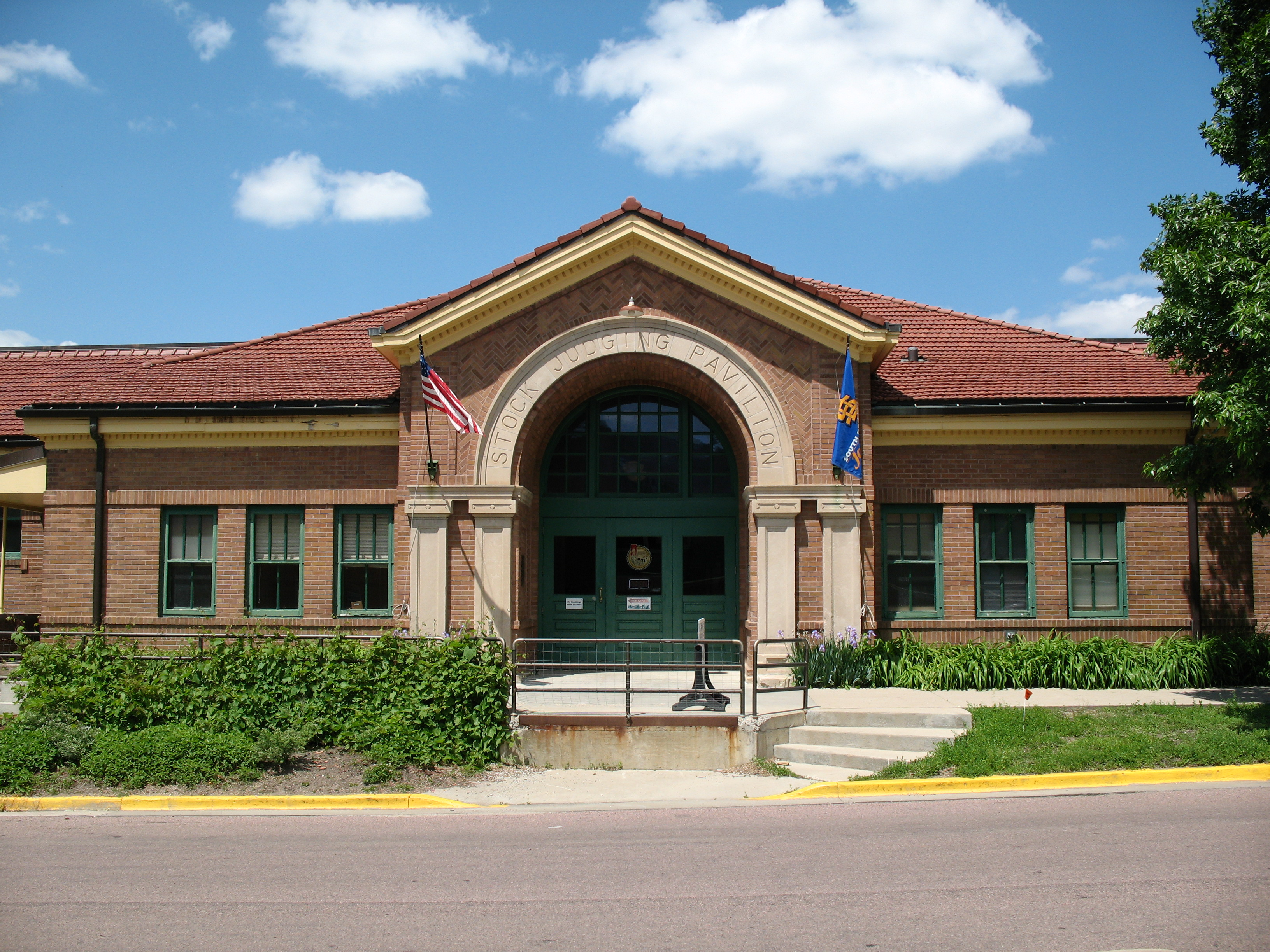 The Agricultural Heritage Museum at SDSU, Brookings, SD.